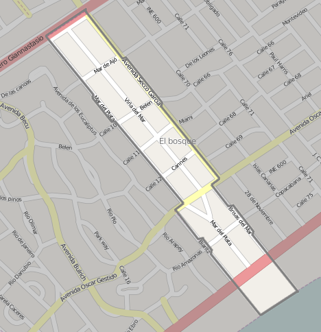 Street map of El Bosque, resort of the Ciudad de la Costa, Canelones Department, Uruguay, exported from OpenStreetMap. I added shading to delimit the resort. This map may be incomplete, and may contain errors. Don't rely solely on it for navigation.